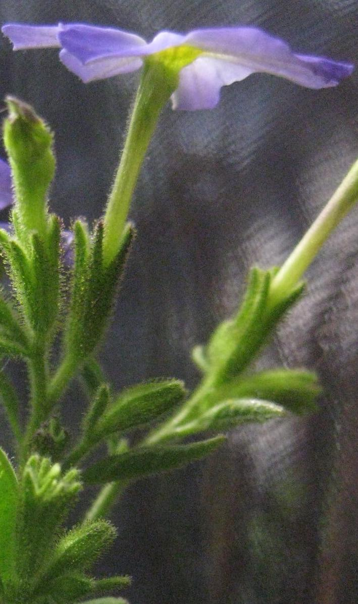 Closeup, side view of flowerhead of Browallia americana, taken in Maryland garden.